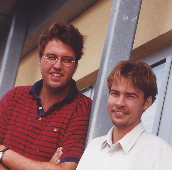 David Brons & Roger Avis on the roof of headoffice